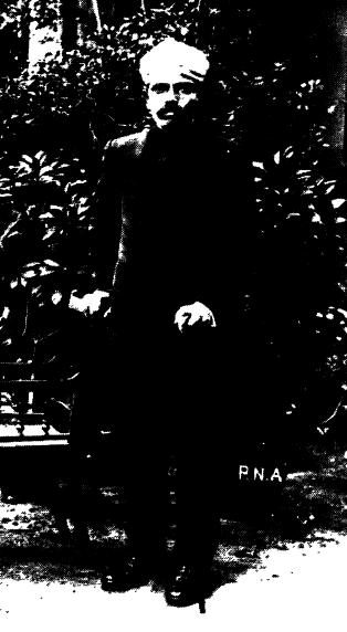 Portrait of Arcot Ramasamy Mudaliar